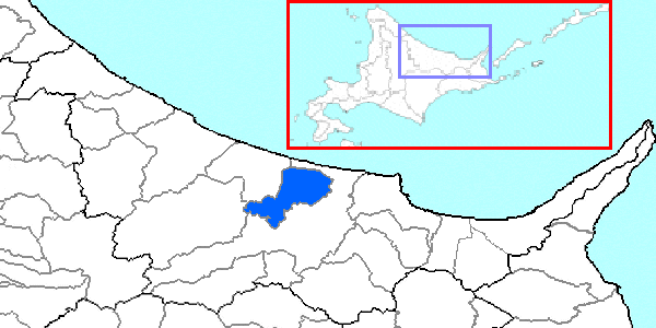 The location of Saroma in Abashiri Subprefecture, Hokkaido Prefecture, Japan.